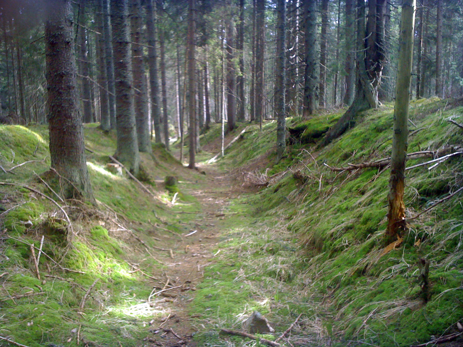 Golden Path, rest of old way from Pasau to Czech